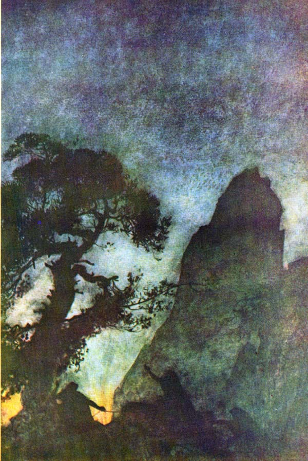 The three Norns